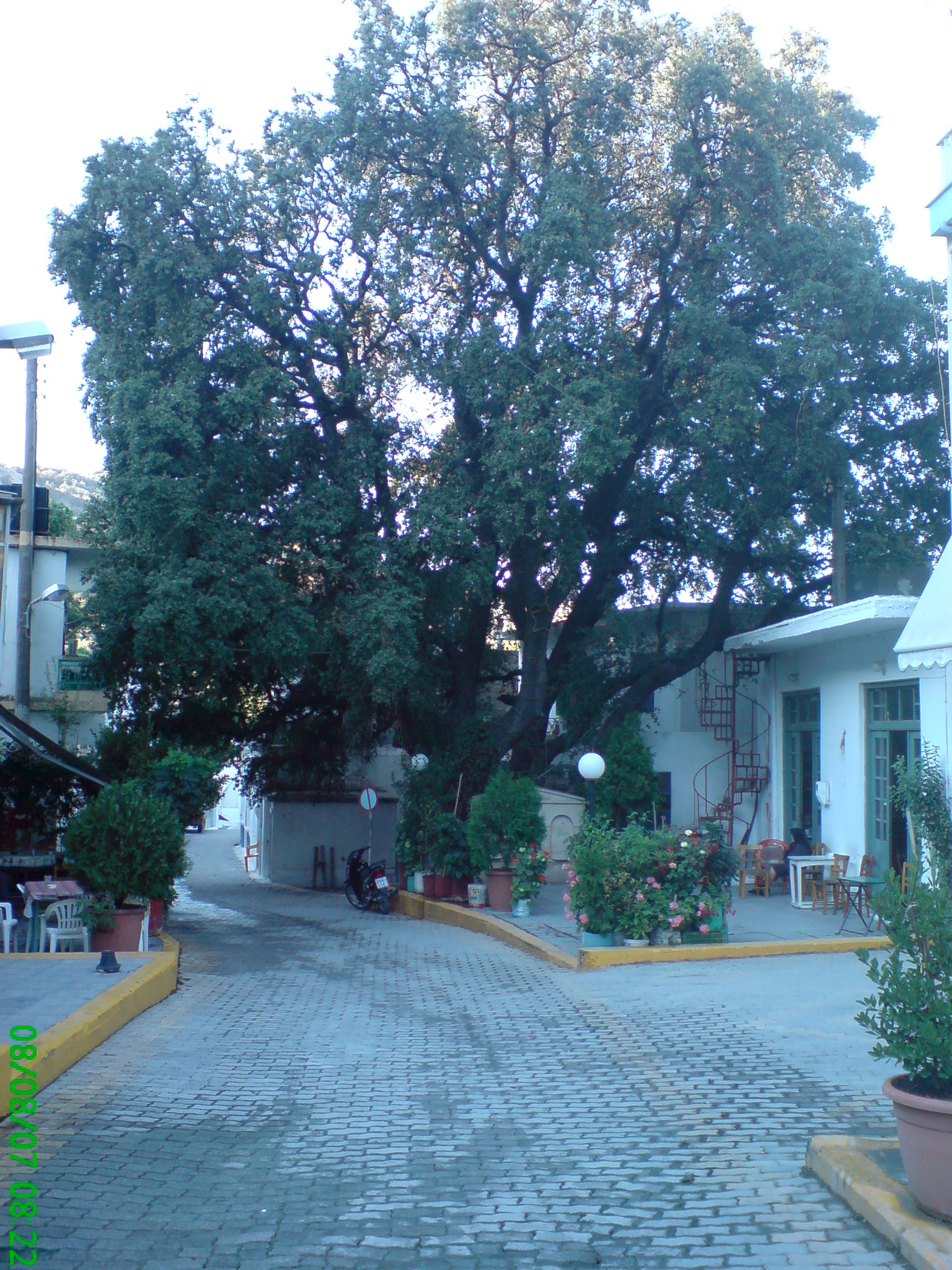 The square ("plateia") in Sykologos, with a large tree at the centre.